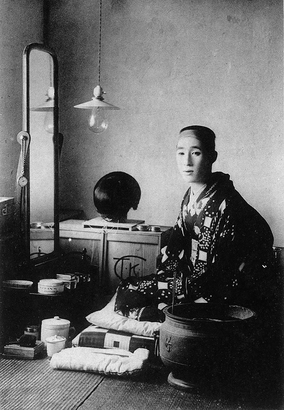 Teinosuke Kinugasa (1896–1982)